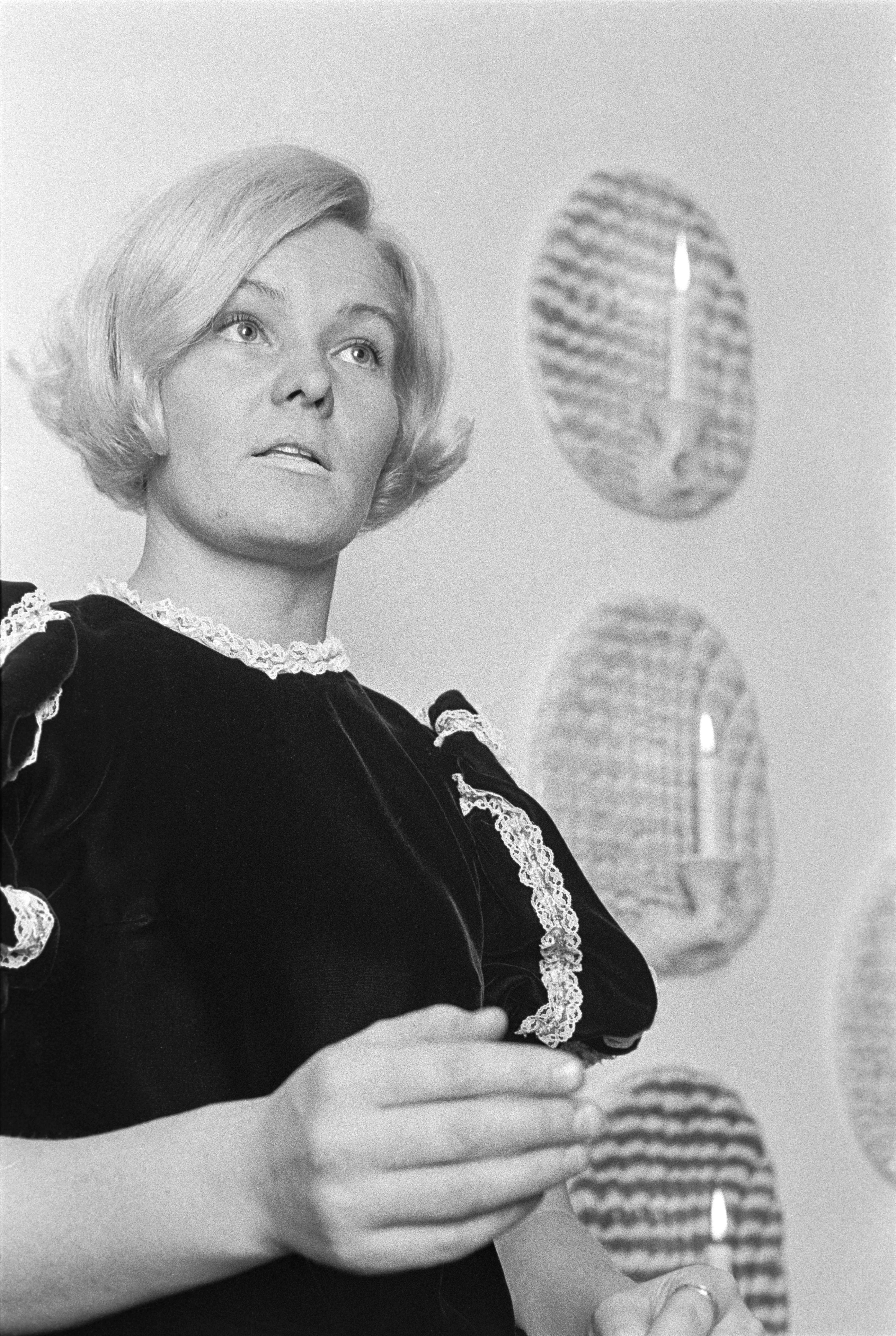 Photograph of the Finnish ceramist Heljä Liukko-Sundström (1938–).